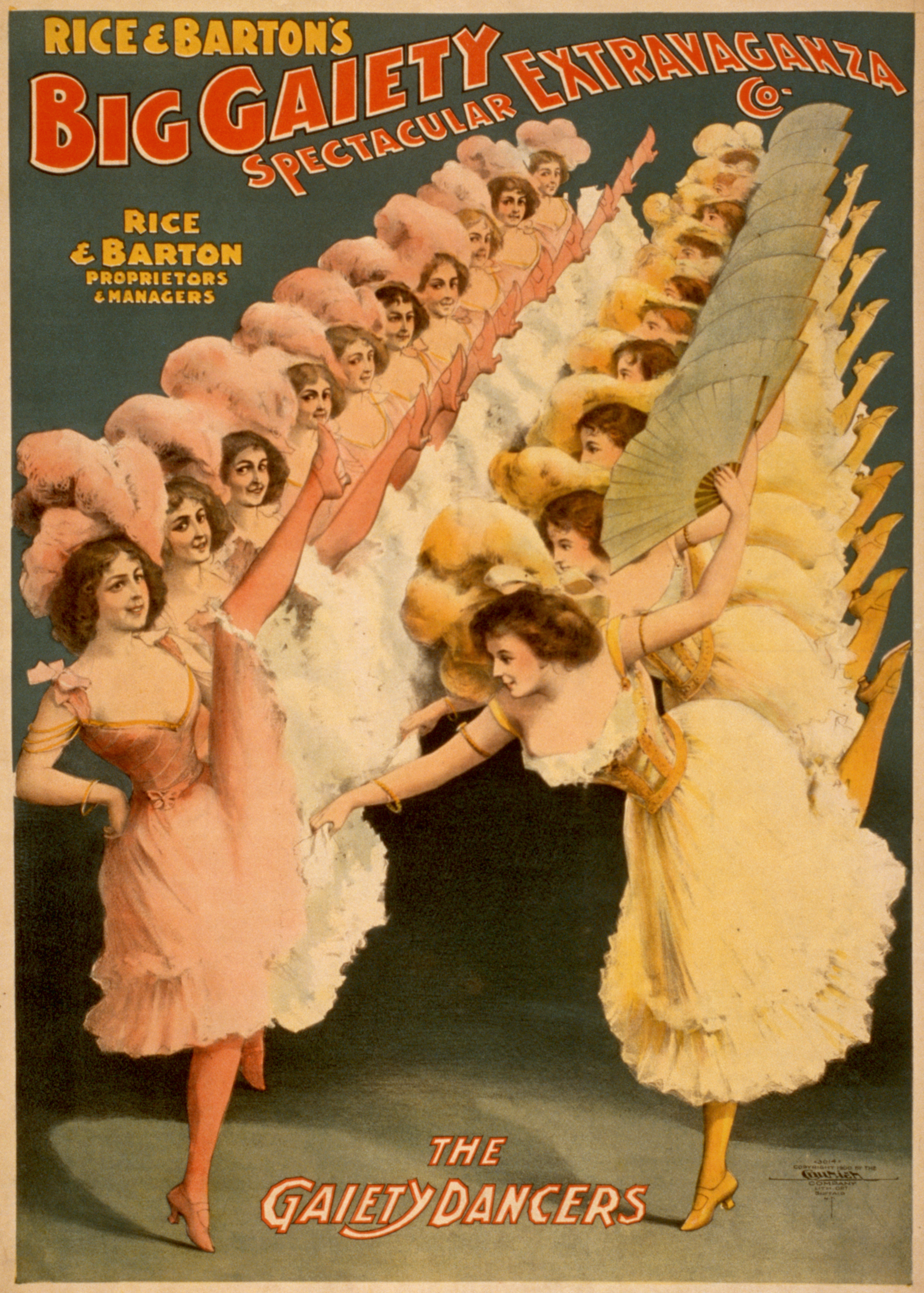 A poster advertising the Gaiety Dancers of Rice & Barton's Big Gaiety Spectacular Extravaganza Co. in 1900.